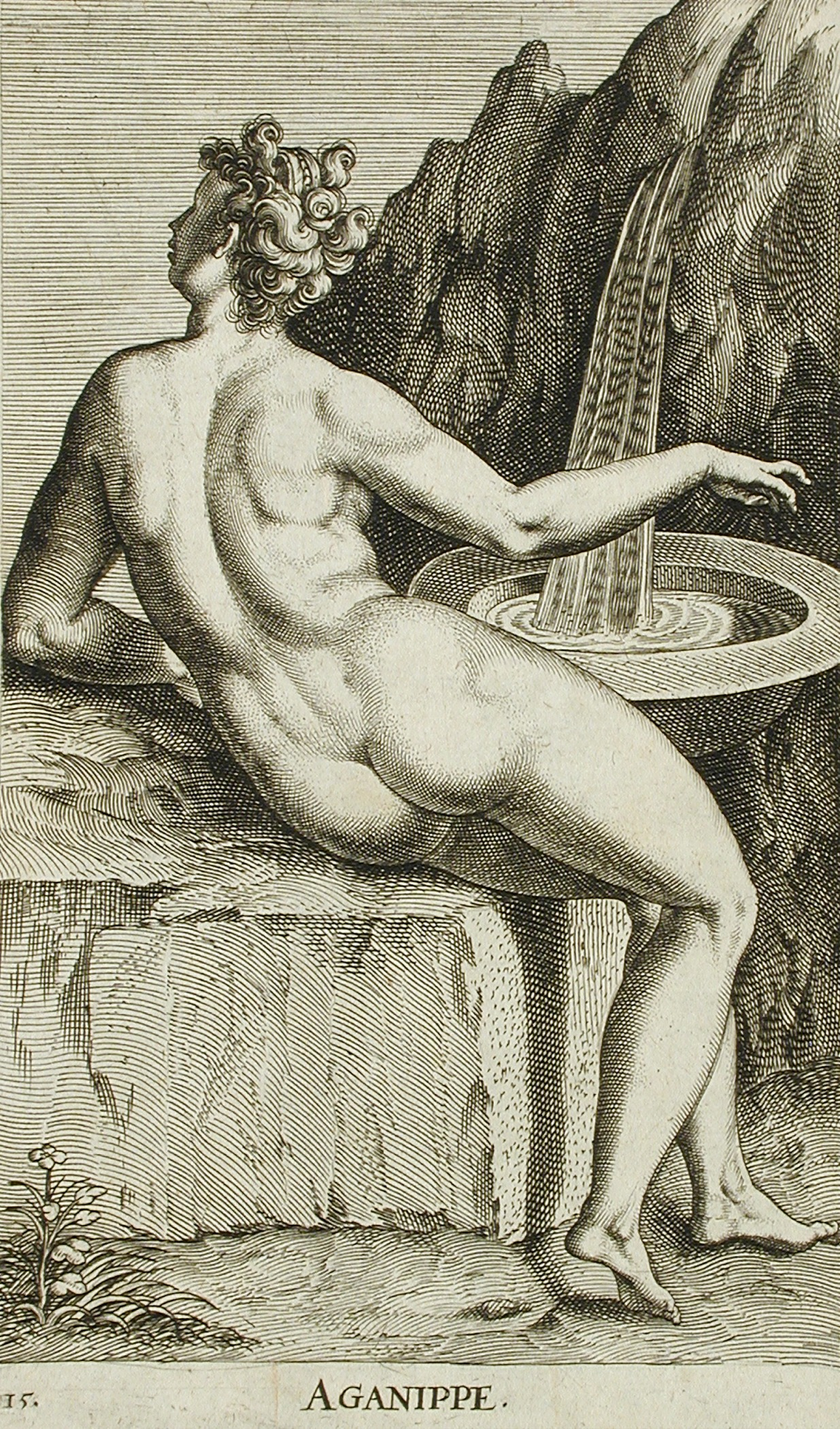 Holland, 1587 Series: Nymphs, pl. 15 Prints; engravings Engraving Mary Stansbury Ruiz Bequest (M.88.91.381p) Prints and Drawings